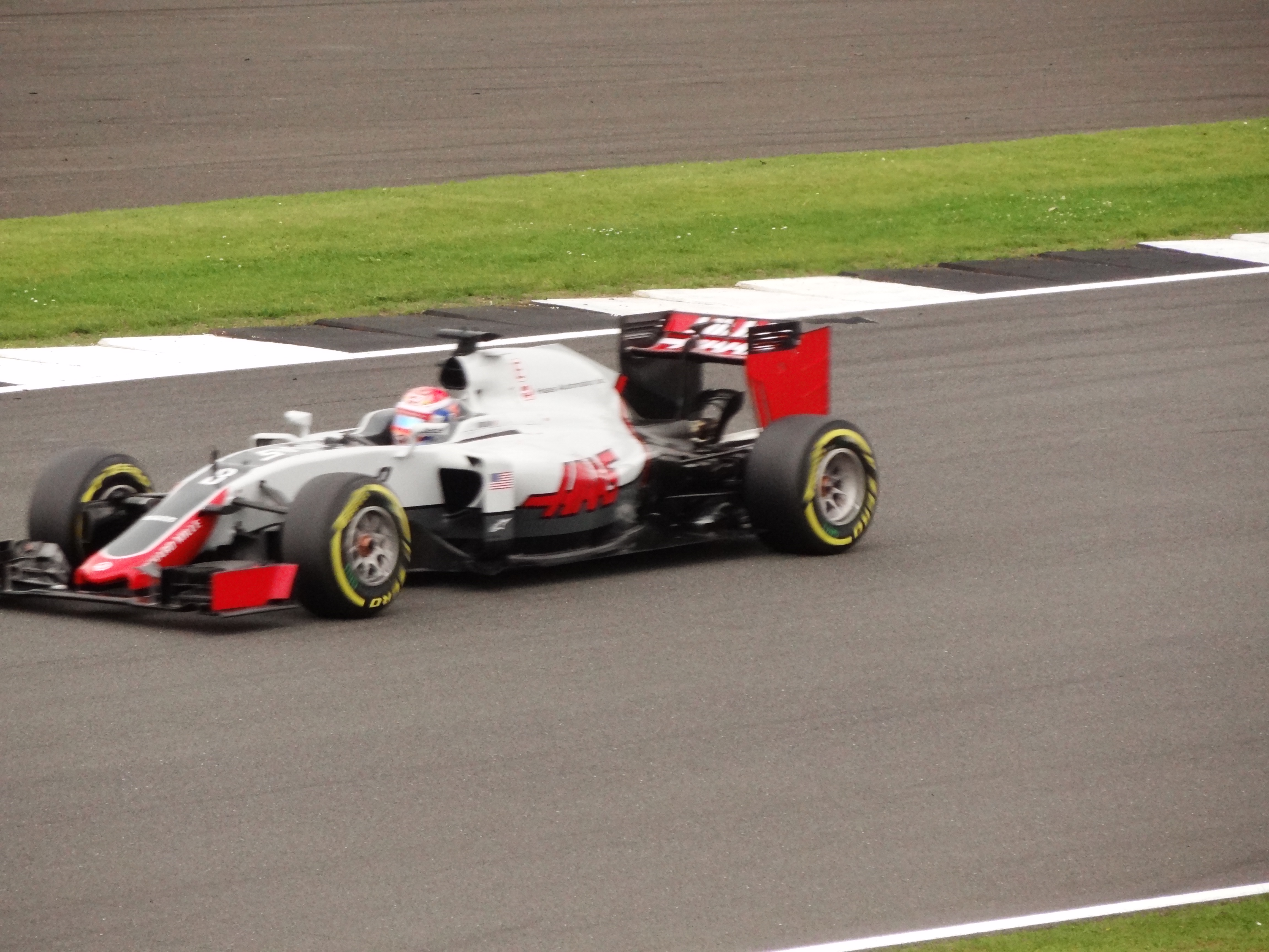 Romain Grosjean in the Haas VF-16, 2016 British Grand Prix